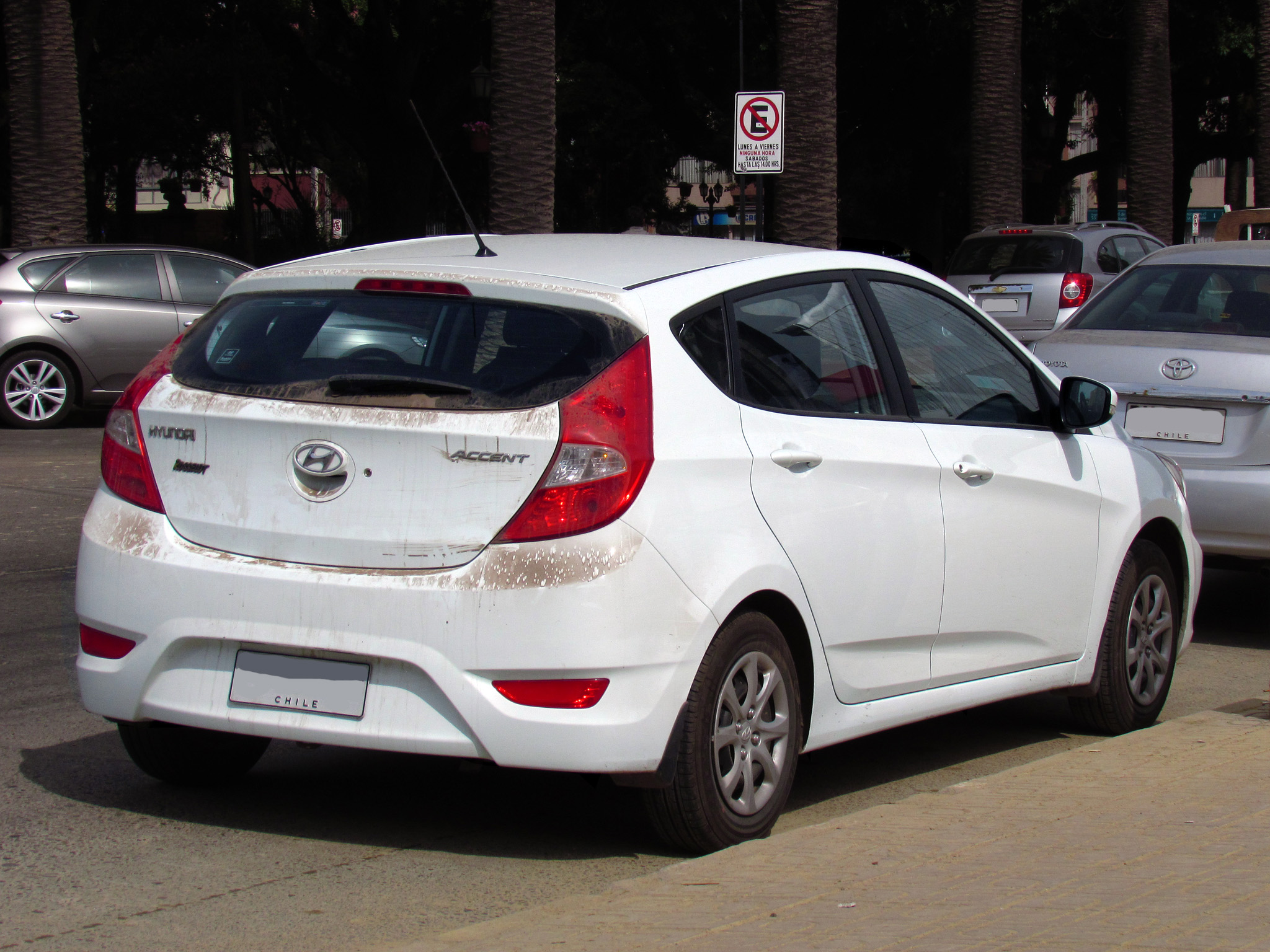 Hyundai Accent GLS 1.4 Hatchback 2013